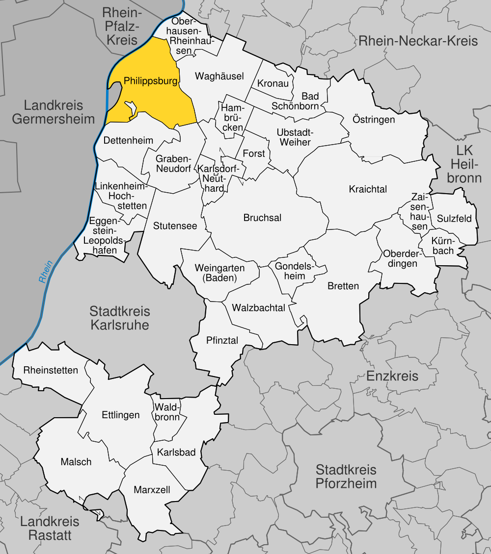 position of Philippsburg within distict of Karlsruhe, Baden-Württemberg, Germany